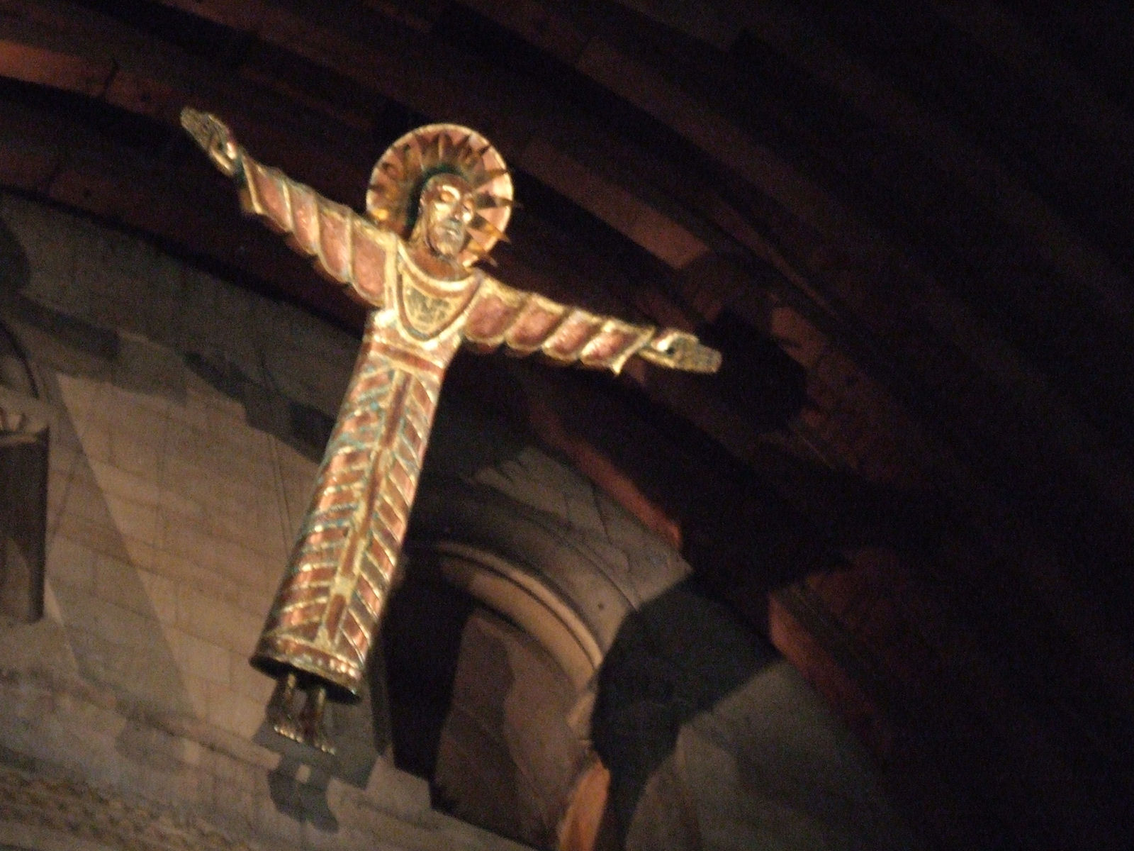 Southwell Minster, England